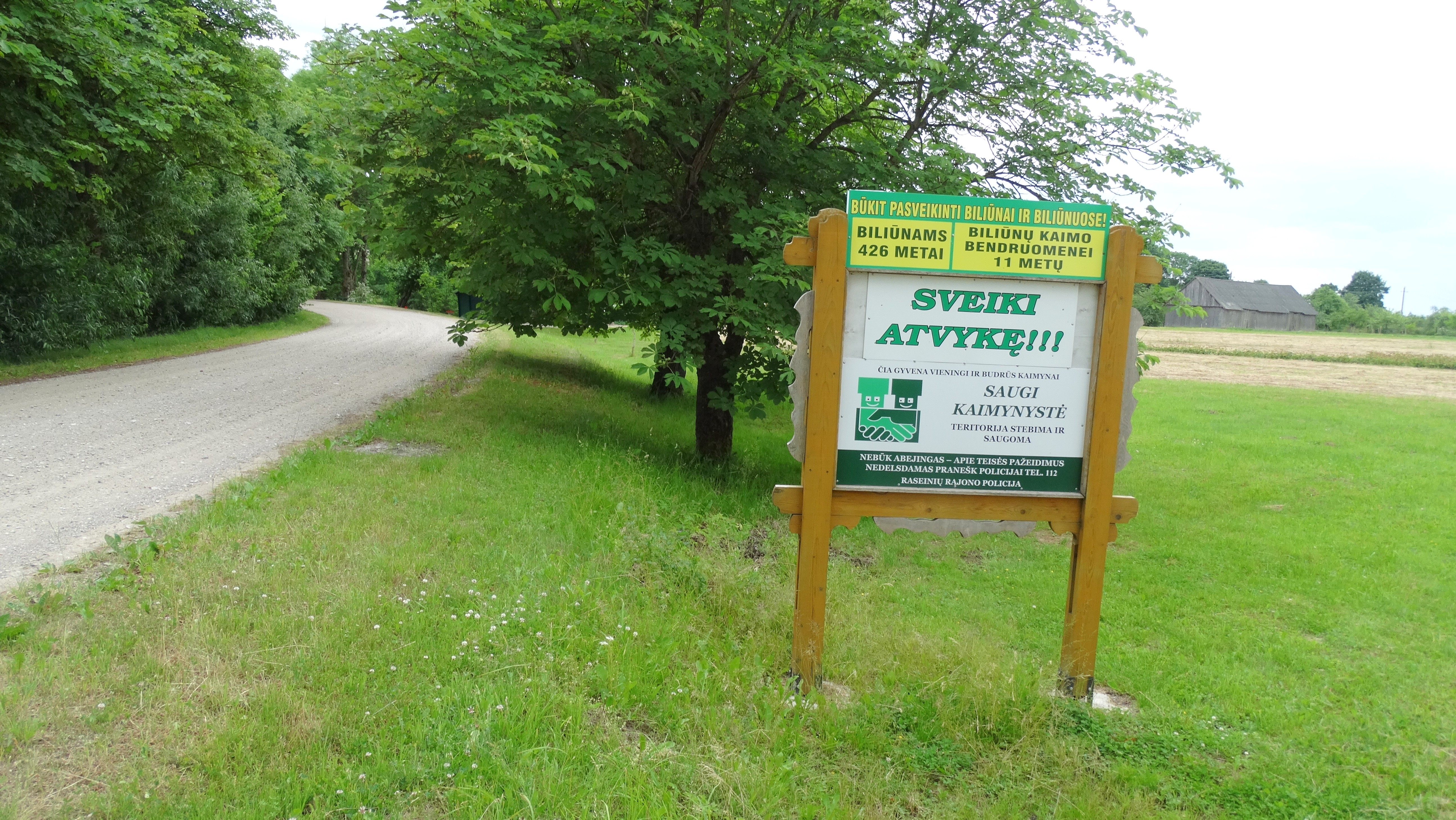 Biliūnai, Raseiniai district, Lithuania